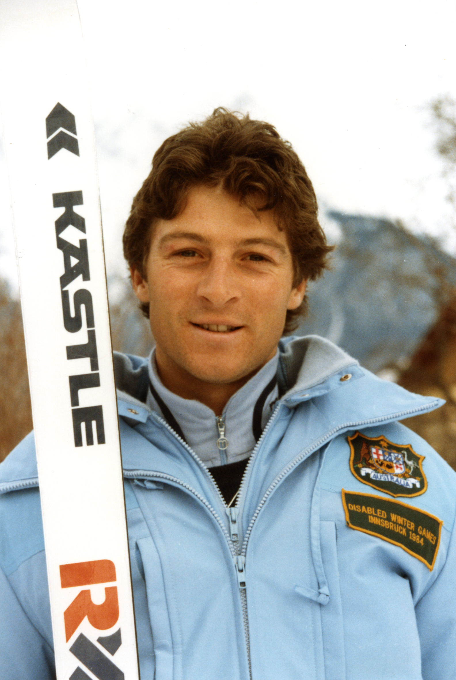 Coach of the Australian Paralympic Team J.Milner at the 1984 Innsbruck Winter Games